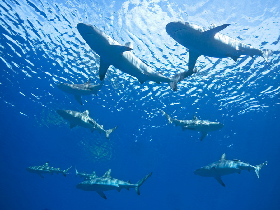 Dharavandhoo Thila - Hanifaru Bay Sharks